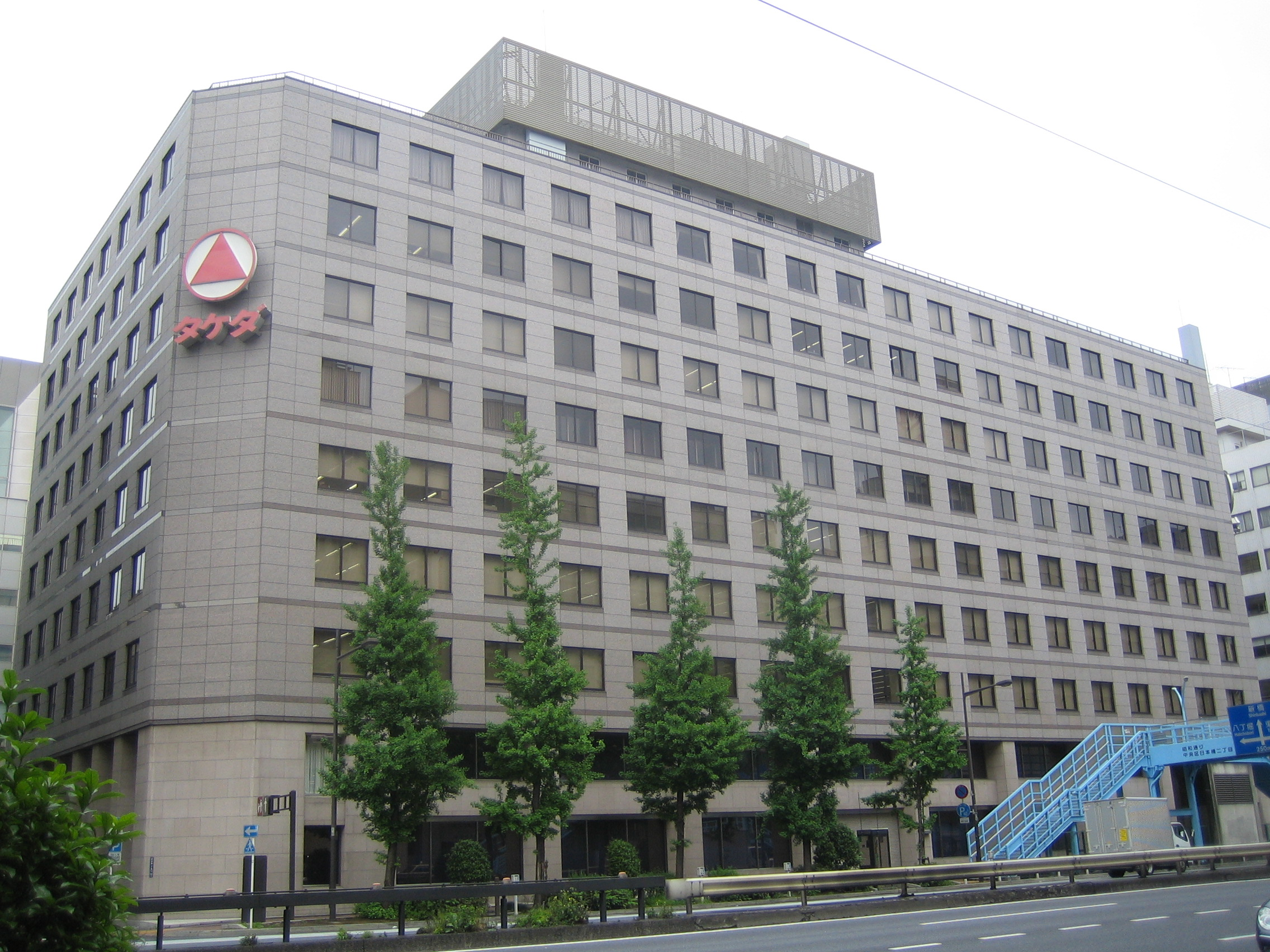 Takeda Pharmaceutical Company (武田薬品工業 Takeda Yakuhin Kōgyō), at Nihonbashi, Chuo, Tokyo, Japan